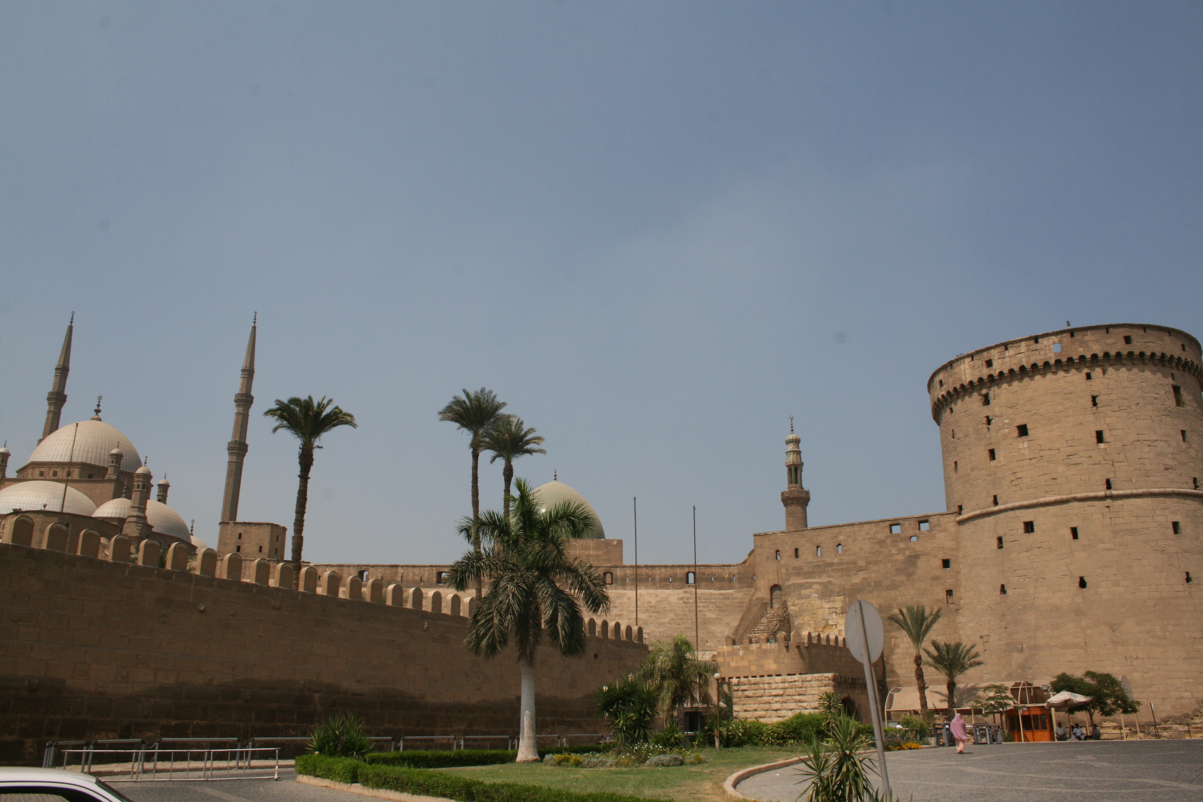 Citadel, Cairo, Egypt